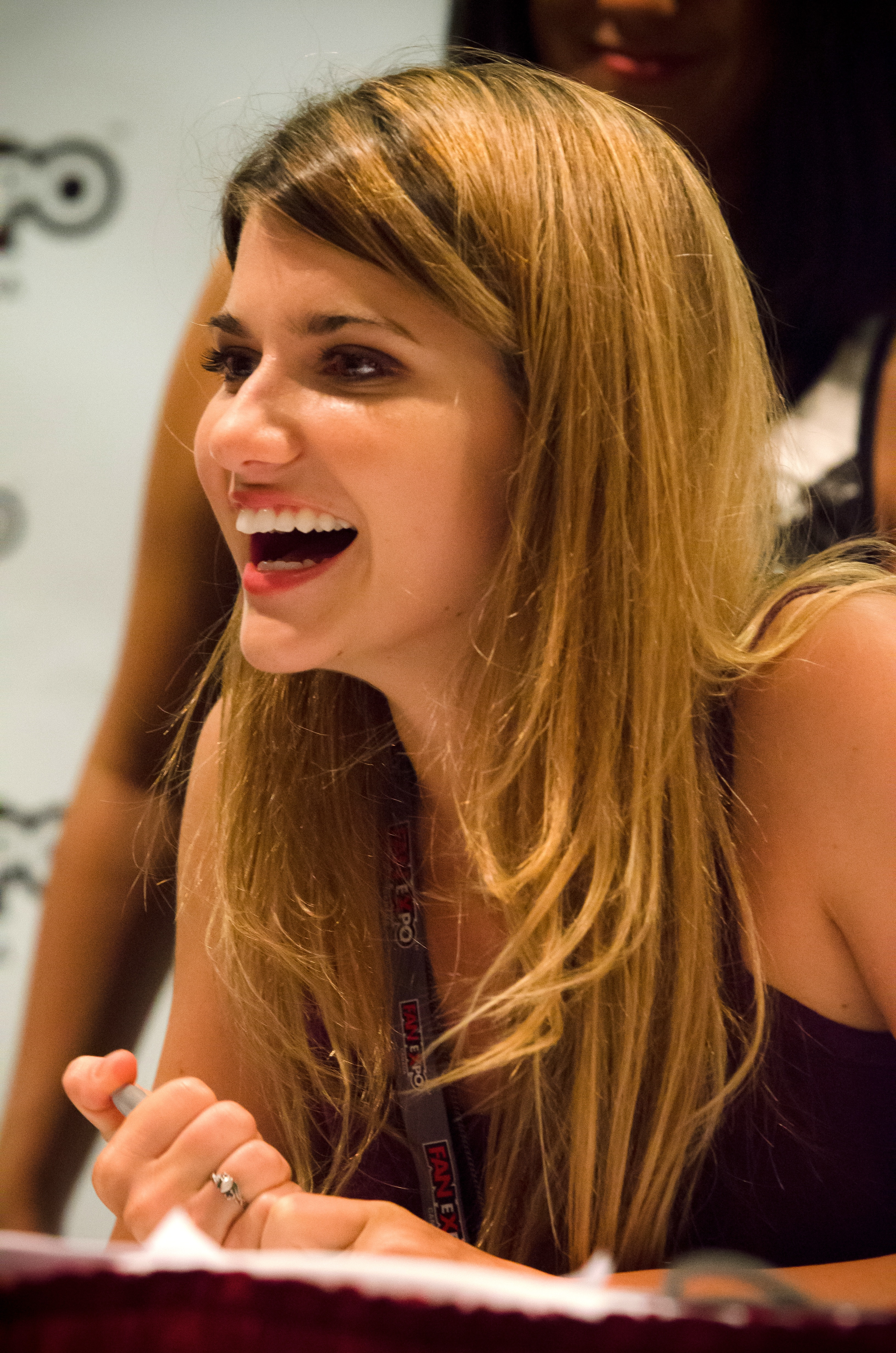 Cinnamon Roll Panel for the webseries Carmilla at Fan Expo Canada in Toronto in 2015.